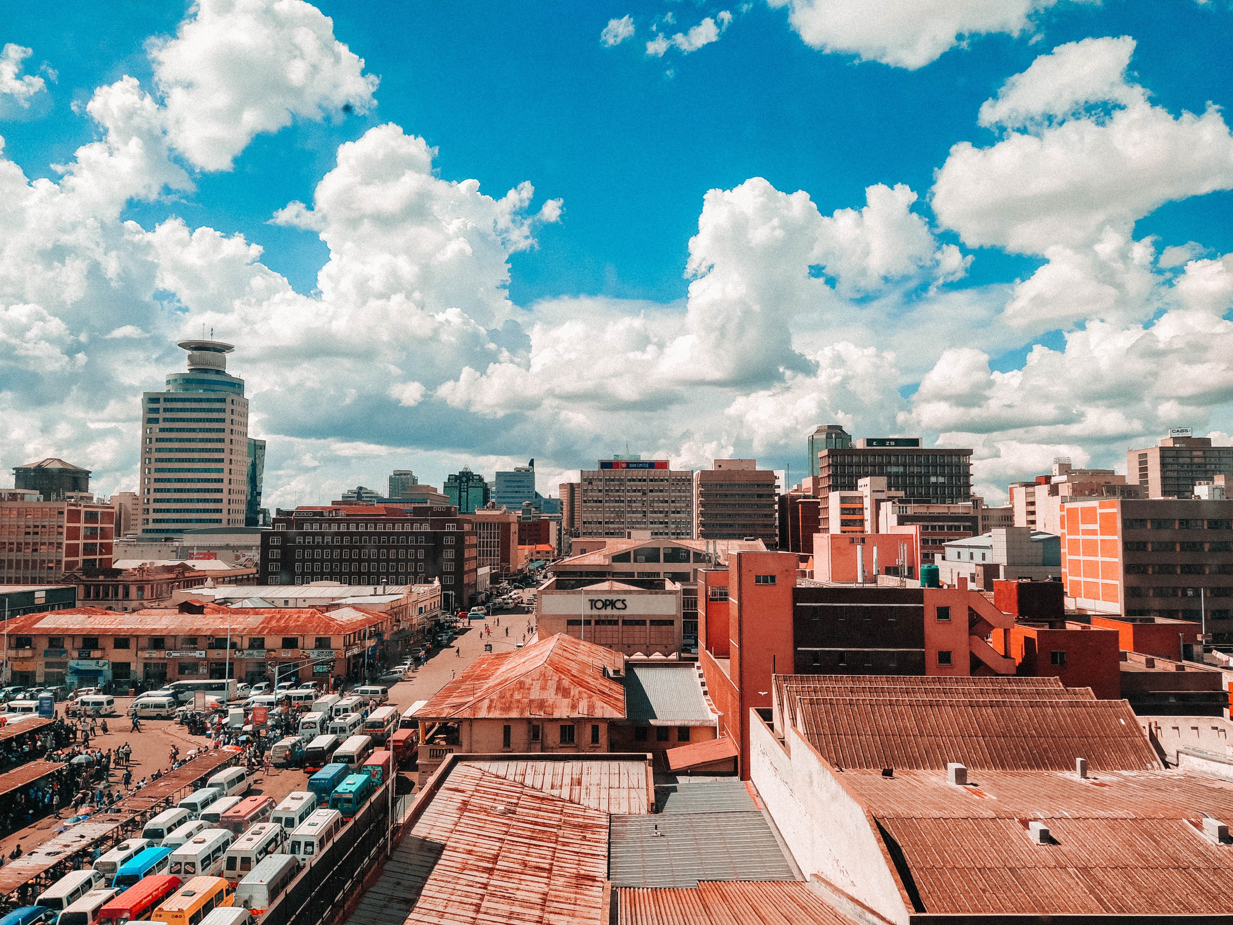 This is an image with the theme "Africa on the Move or Transport" from: Zimbabwe